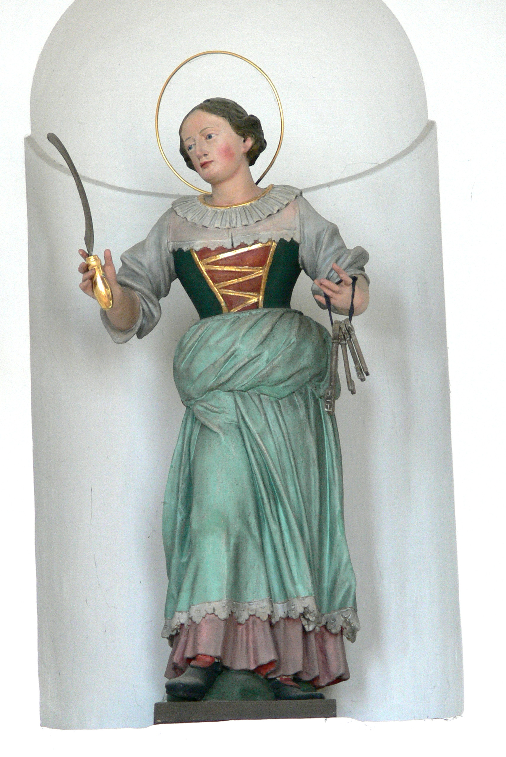 Scheffau parish church - Statue of Saint Notburga of Rattenberg.